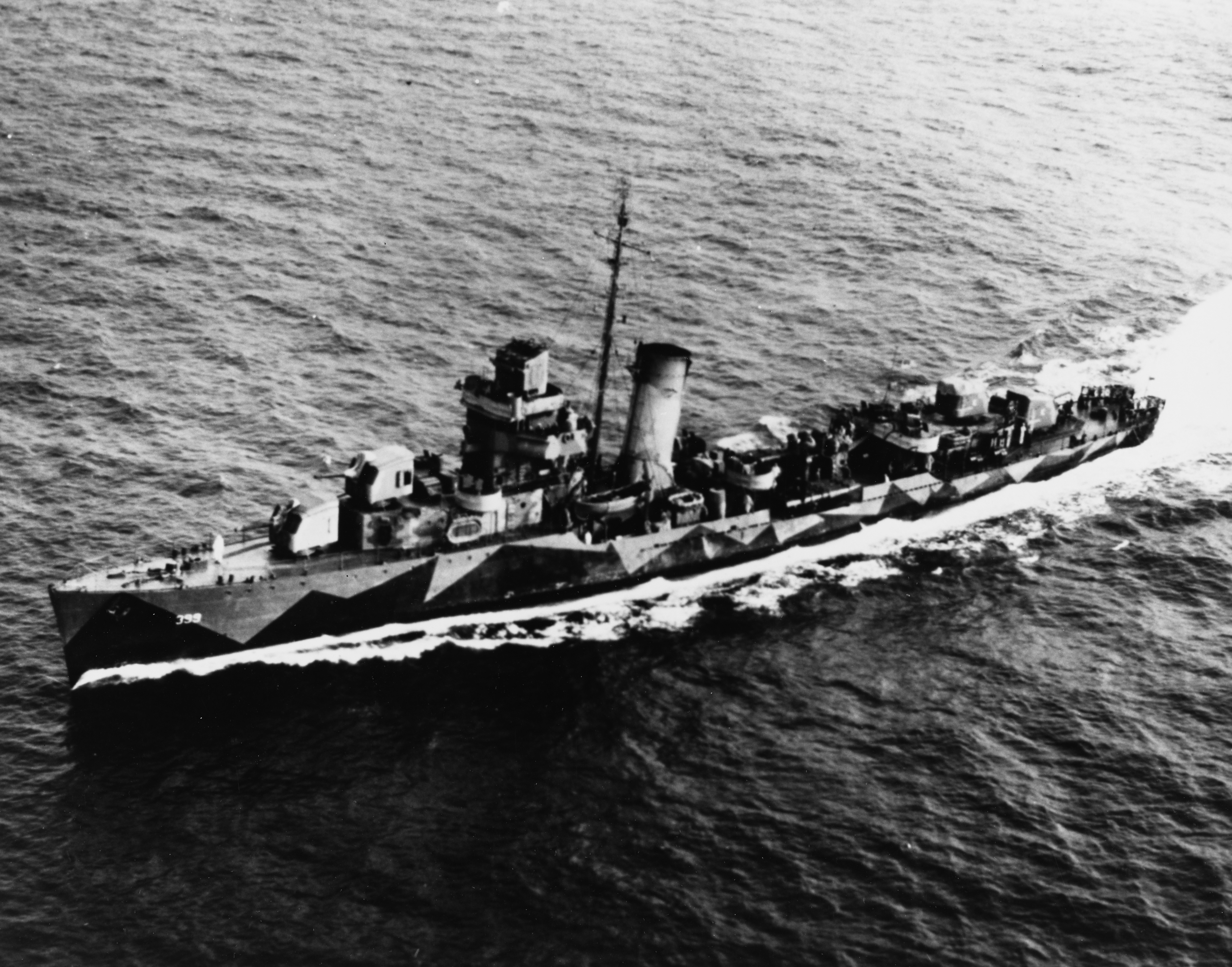 The U.S. Navy destroyer USS Lang (DD-399) underway in the Atlantic Ocean on 26 May 1942. Note her pattern camouflage.